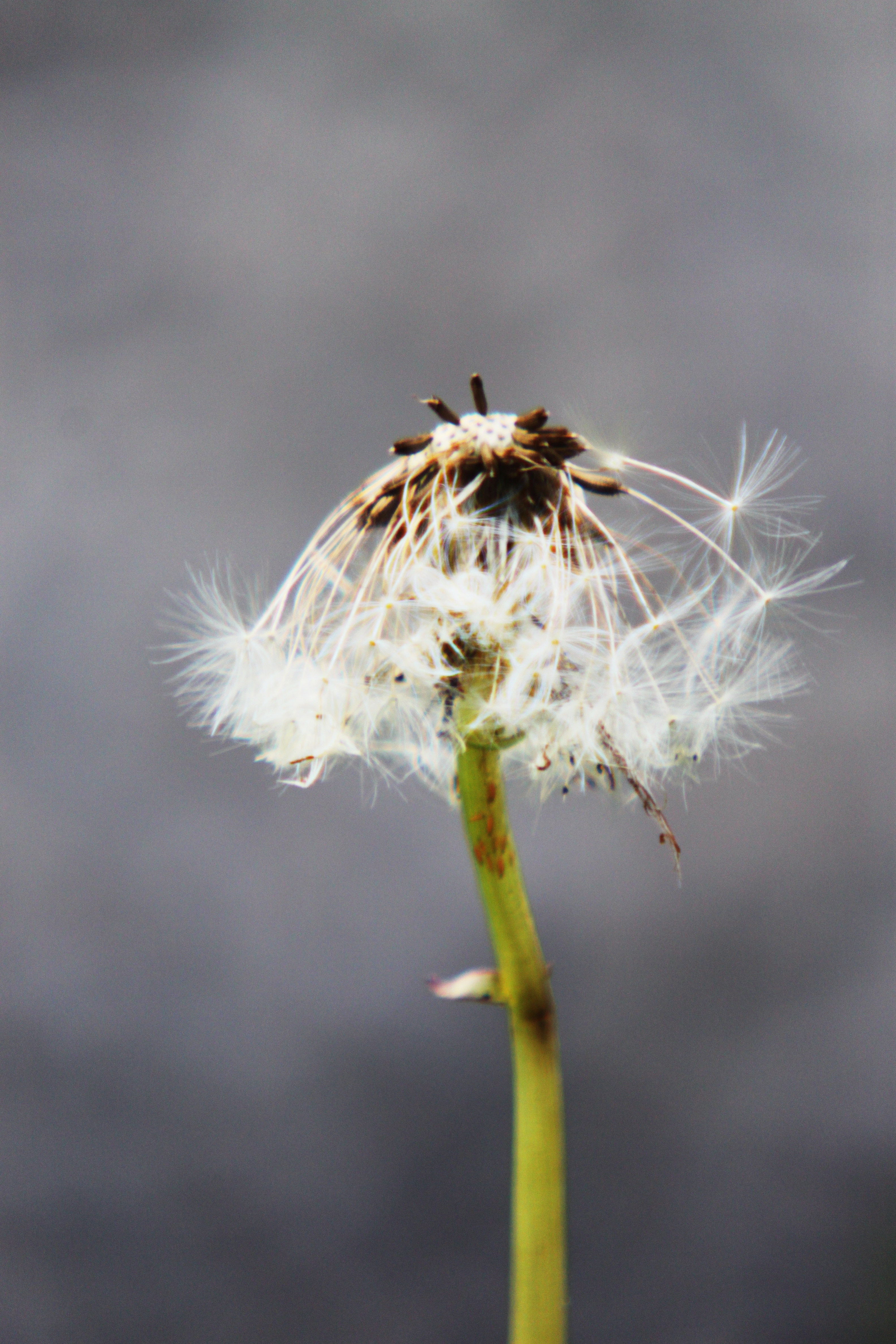 Taraxacum officinale